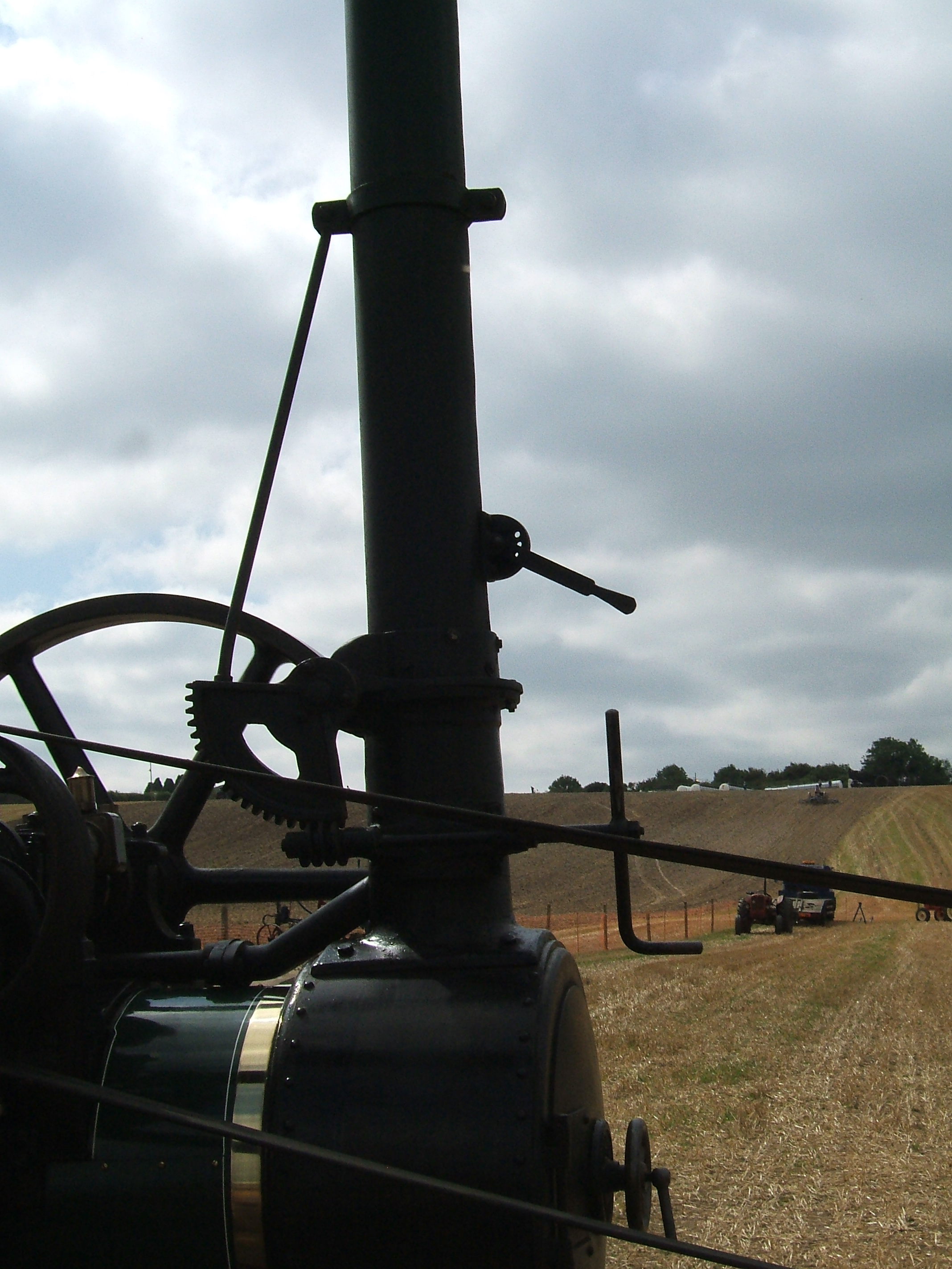 Robey portable engine at the Great Dorset Steam Fair 2007 Robey 3nhp single-cylinder portable engine, no. 25961, built 1905. Re-patriated to the UK from Australia, where it had powered a sheep-shearing station and then provided steam for a laundry. Here it is providing power for a Hayes Windlass Roundabout Ploughing Tackle at GDSF 2007. This close-up is intended to show the damper (upper lever on chimney) and the ingenious worm-and-quadrant-gear mechanism for raising and lowering the chimney.